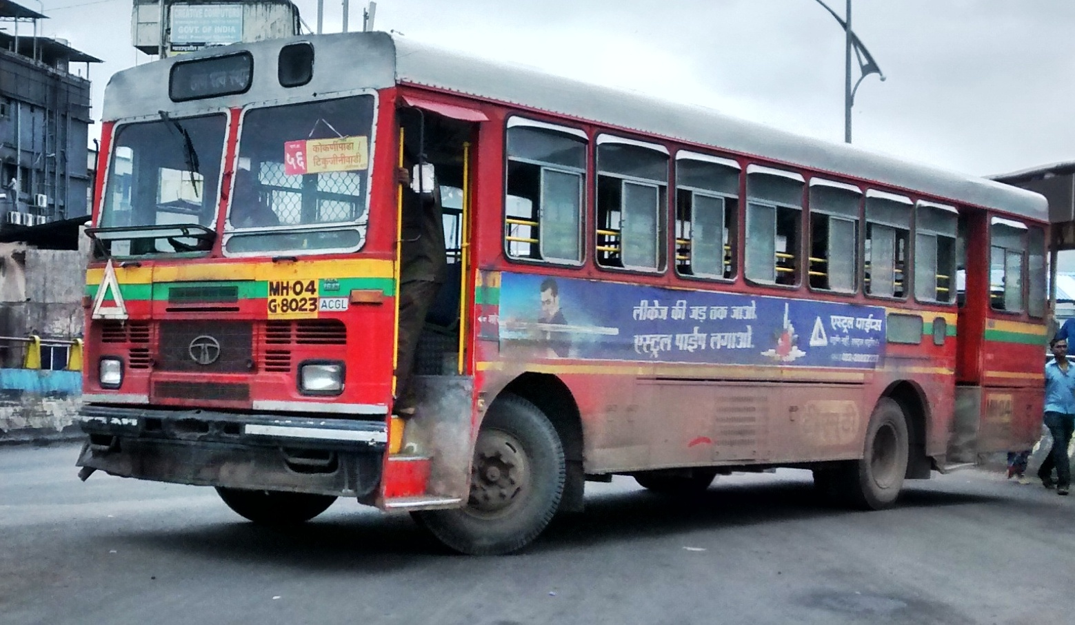 TMT Thane's Bus number 56.